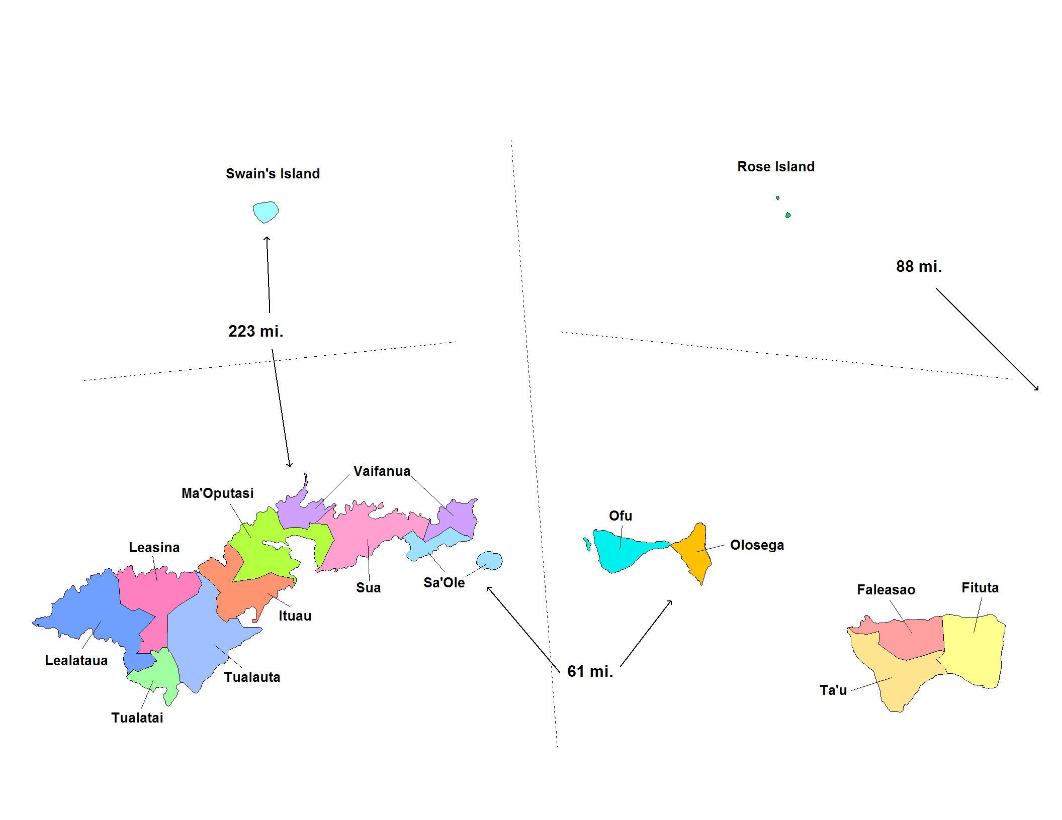 Map of the counties of American Samoa for the Eastern and Western Districts. Created by Rarelibra for public domain use. Created using MapInfo Professional v7.5 and using various mapping resources.